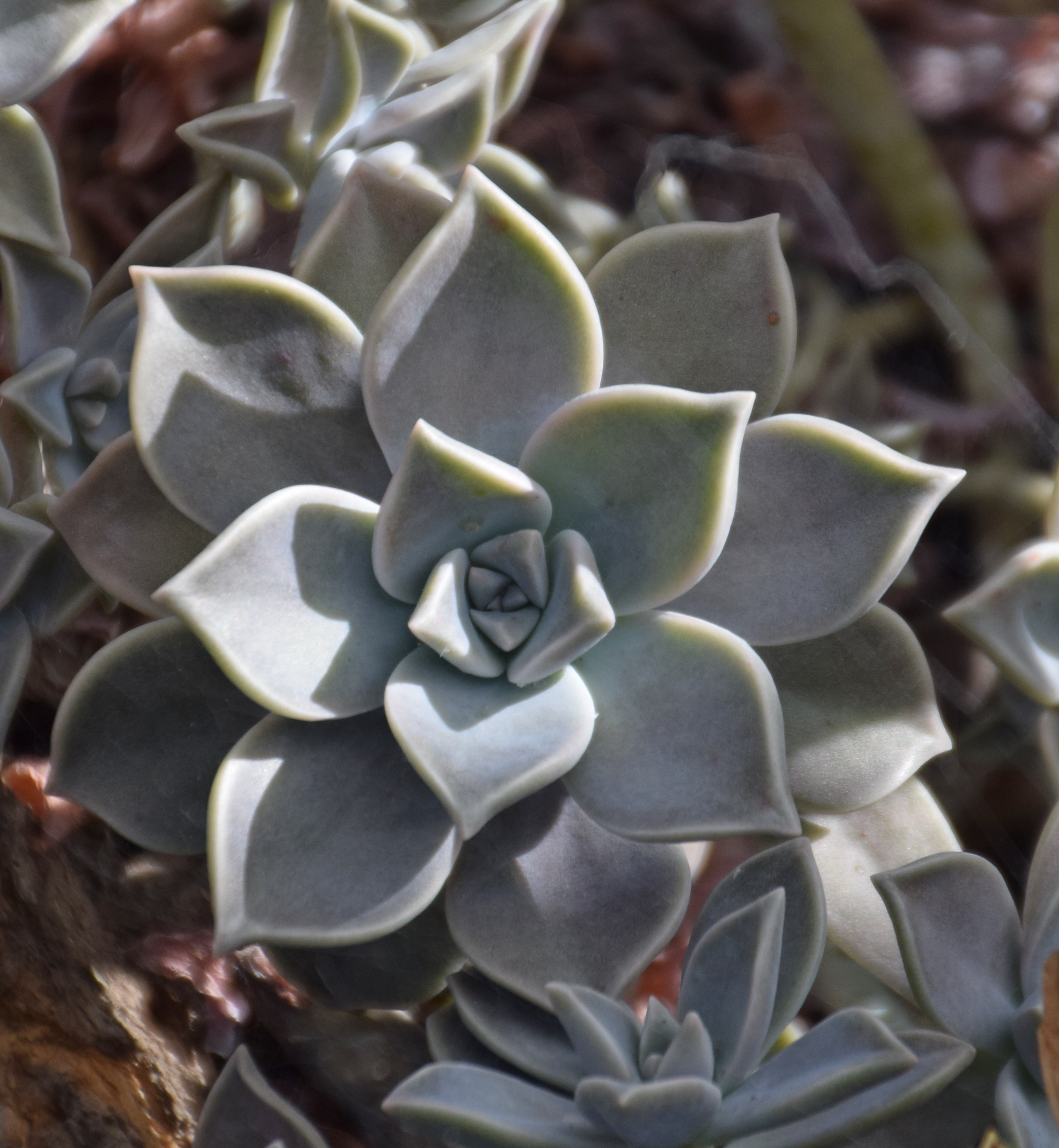 Graptopetalum paraguayense in Dunedin Botanic Garden, Dunedin, New Zealand